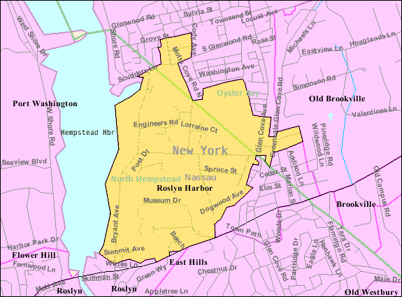 U.S. Census 2000 reference map for Roslyn Harbor